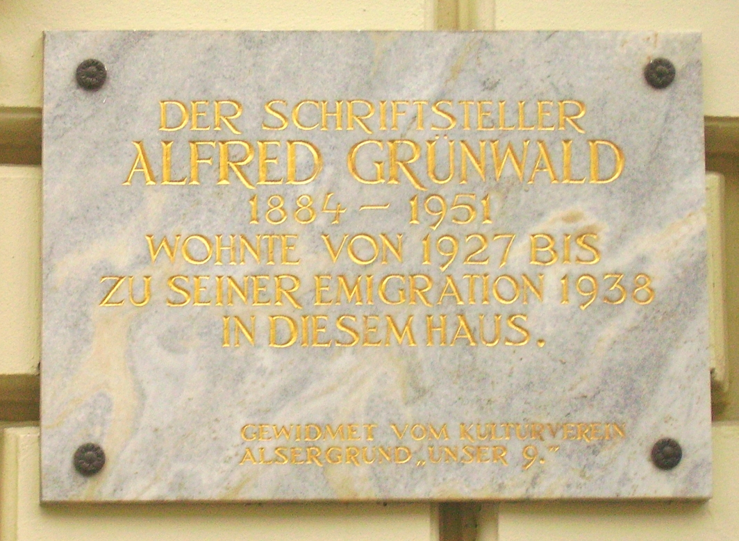 Vienna, Kolingasse 4: memorial plaque for Alfred Grünwald